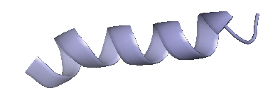 Solution Structure of a peptide mimetic of the fourth cytoplasmic loop of the G-protein coupled CB1 cannabinoid receptor